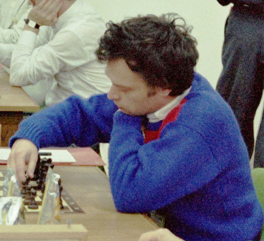 Chess Olympiad 1986 - Gyula Sax, Photographer Gerhard Hund.